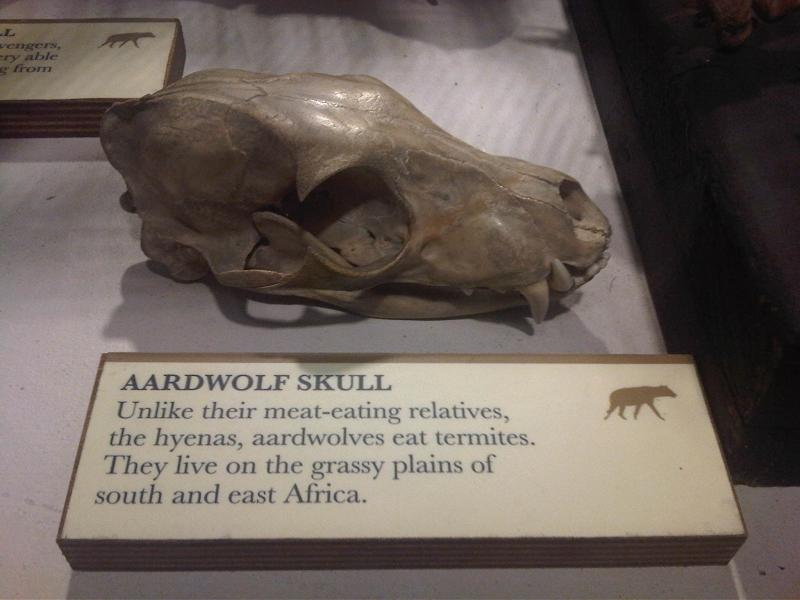 Aardwolf (Proteles cristata) skull in Grant Museum of Zoology, London, England.